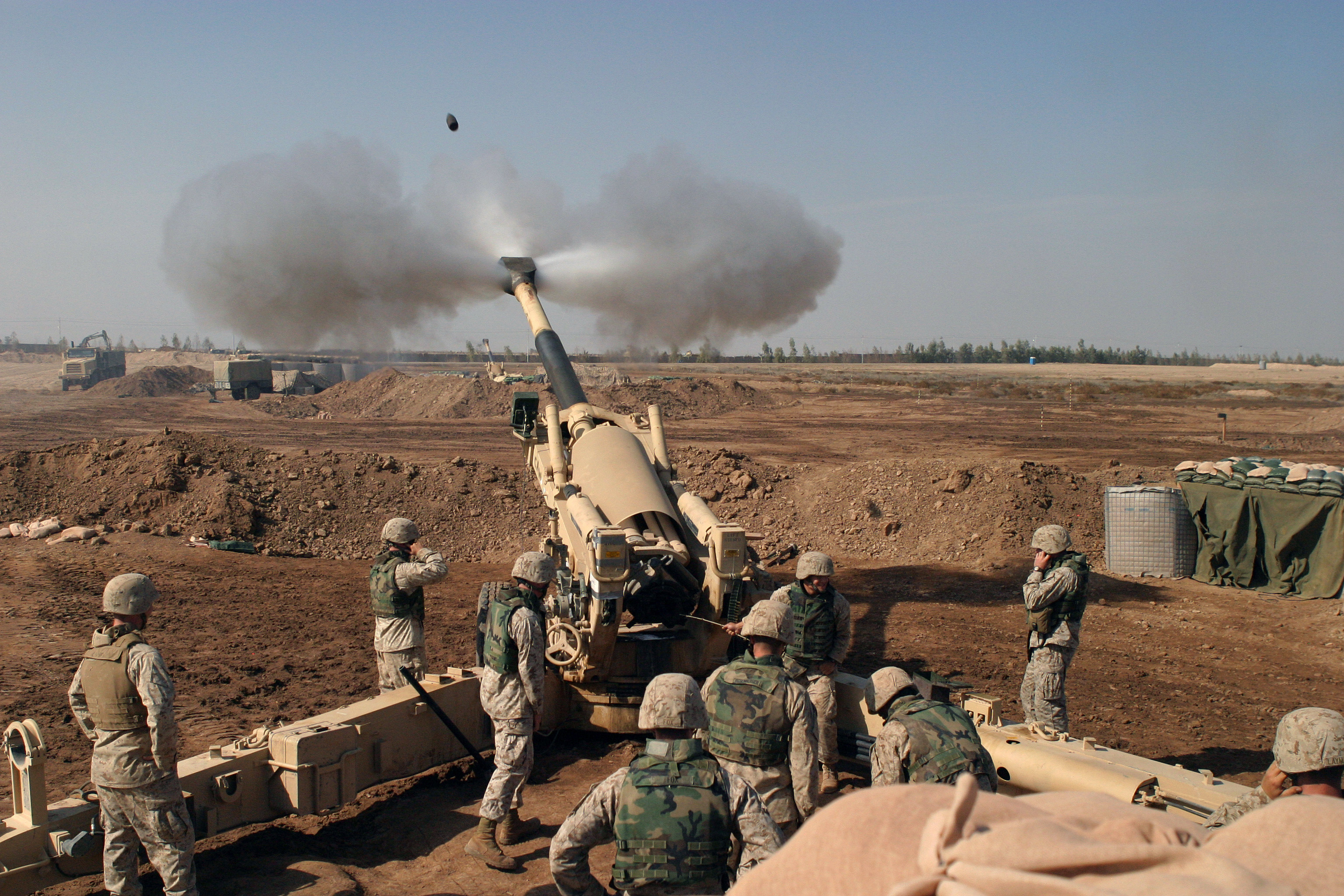 An M-198 155mm Howitzer of the US Marines firing at Fallujah, Iraq, during the Second Battle of Fallujah.